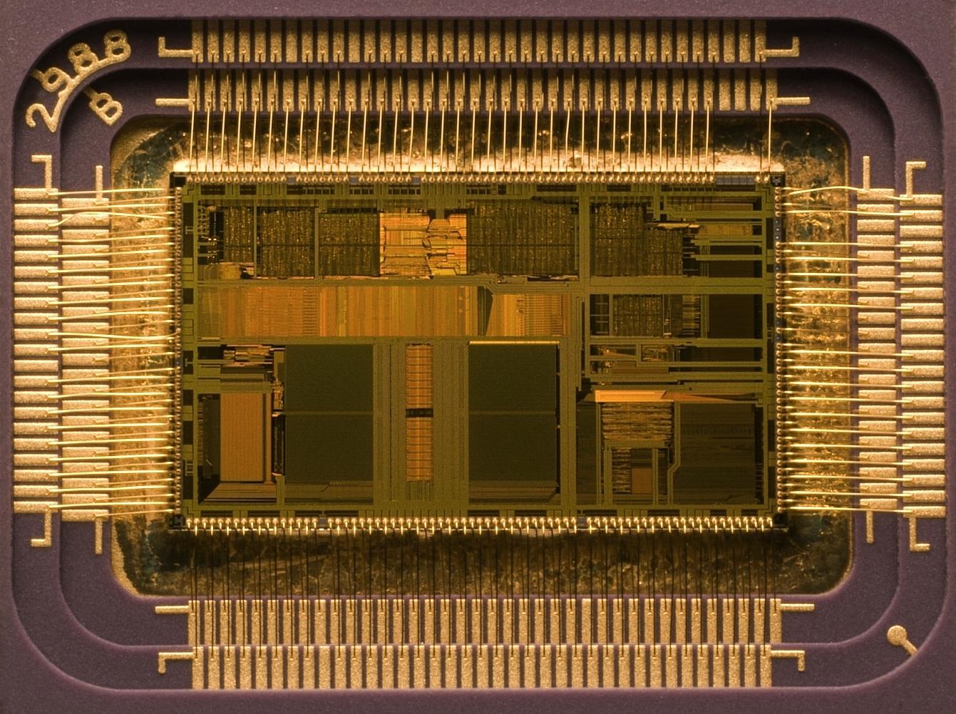 Macro shot of an Intel 80486DX2 die in its packaging. The actual size of the die in the center is 12×6.75 mm.